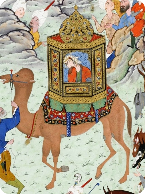 Illustration from Haft Awrang, Yusuf and Zulaykha (Freer Jami, folio 101a).